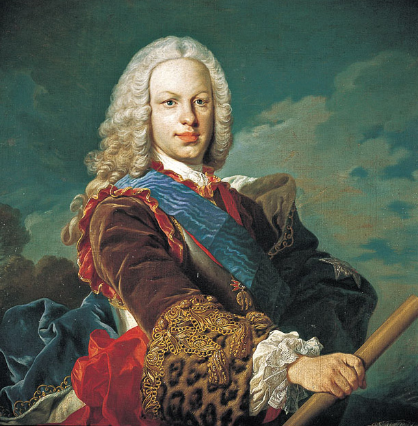 Ferdinand VI of Spain (1713-1759)